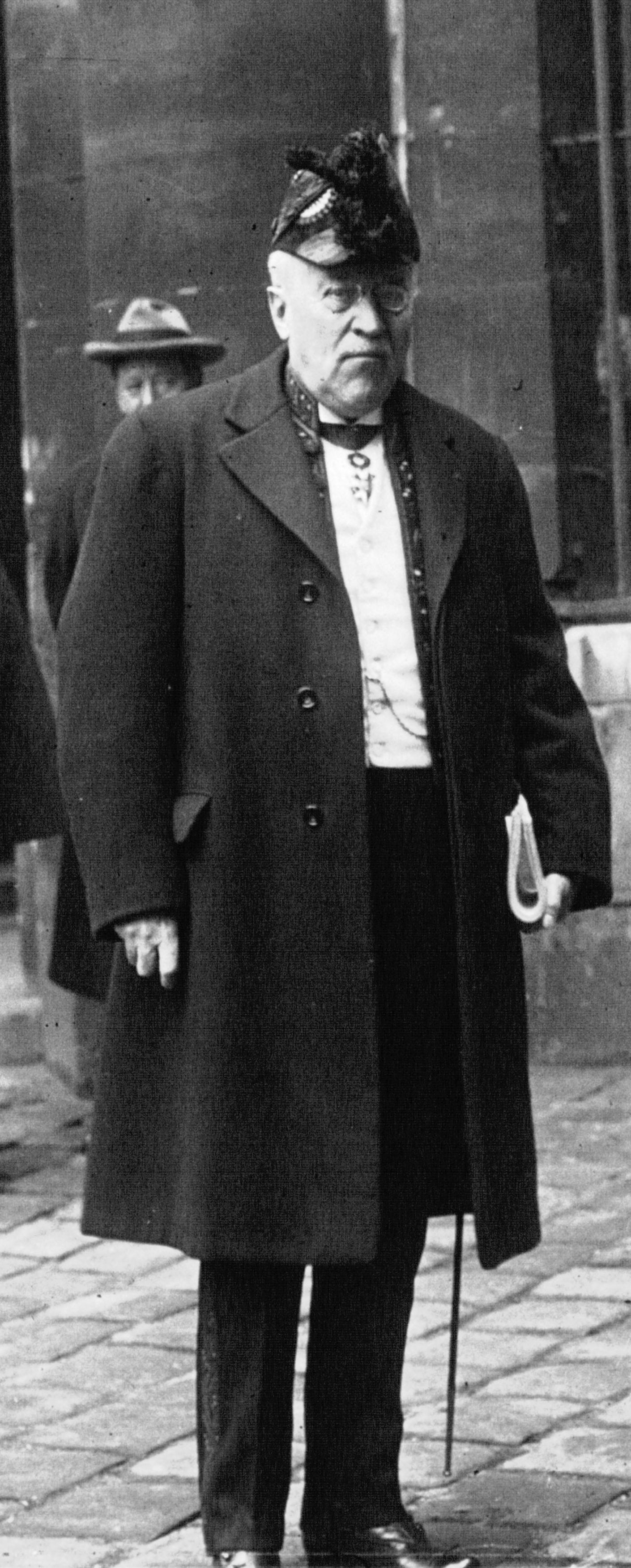 Emile Picard (b. 1856 - d. 1941), French mathematician. 1926 photo by Agence Meurisse, public domain.